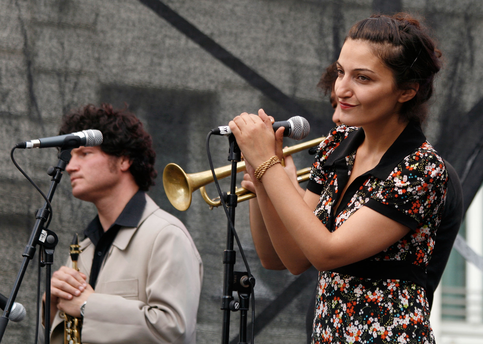 Andrey Prozorow and Fatima Spar and The Freedom Fries, concert in Vienna